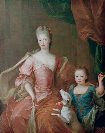 Élisabeth Charlotte d'Orléans and her son Louis, Hereditary Prince of Lorraine in circa 1706 by Pierre Gobert